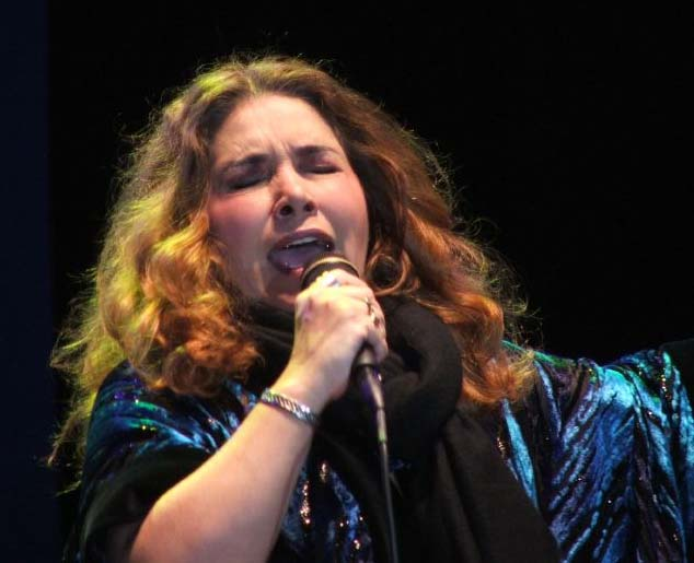 Tania Libertad performs at the Nacional Fair at Durango on July 26, 2008.